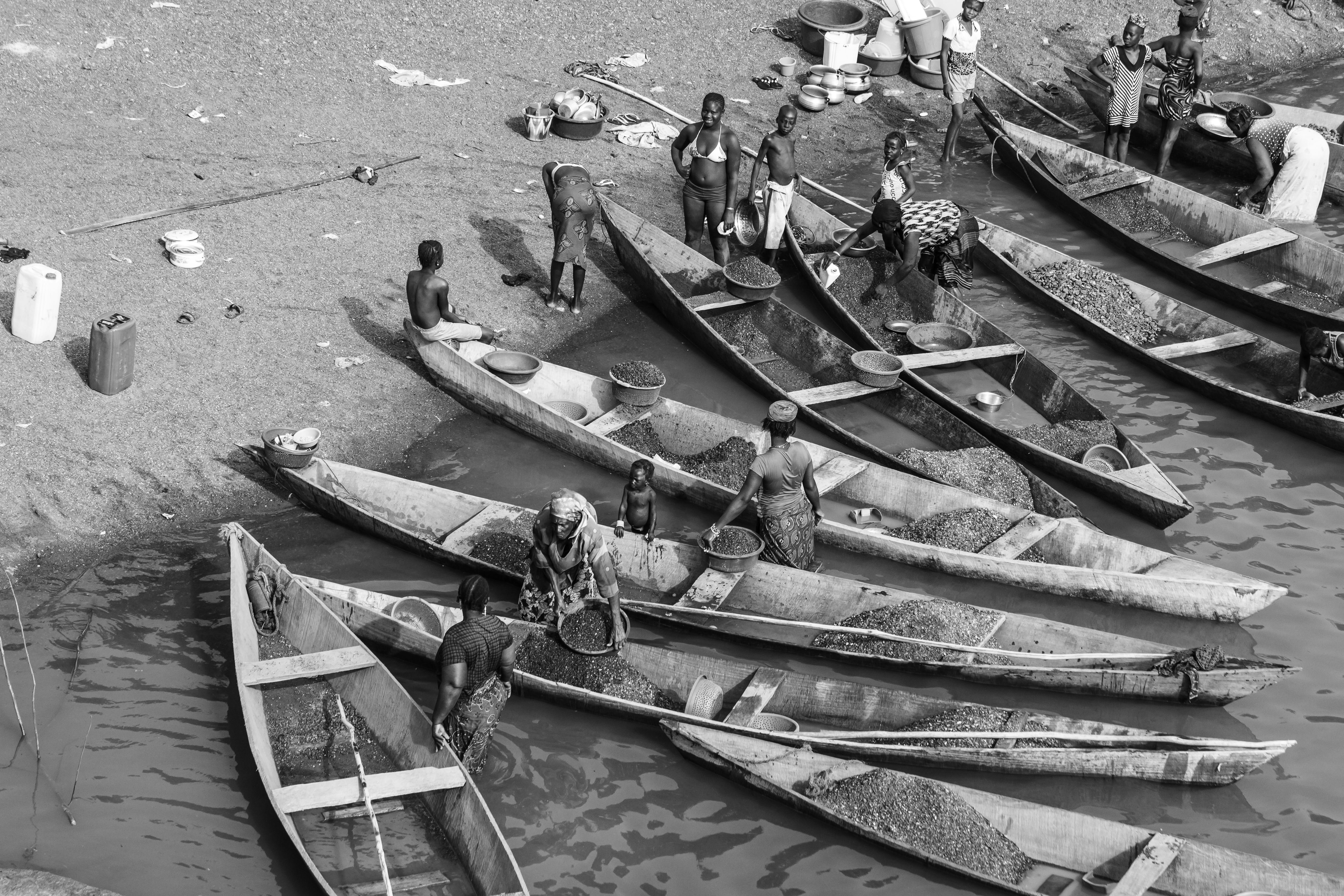 In the Yamoussoukro region of Côte d'Ivoire, these women are hand-sweeping the bed of the Bandama River to collect gravel.